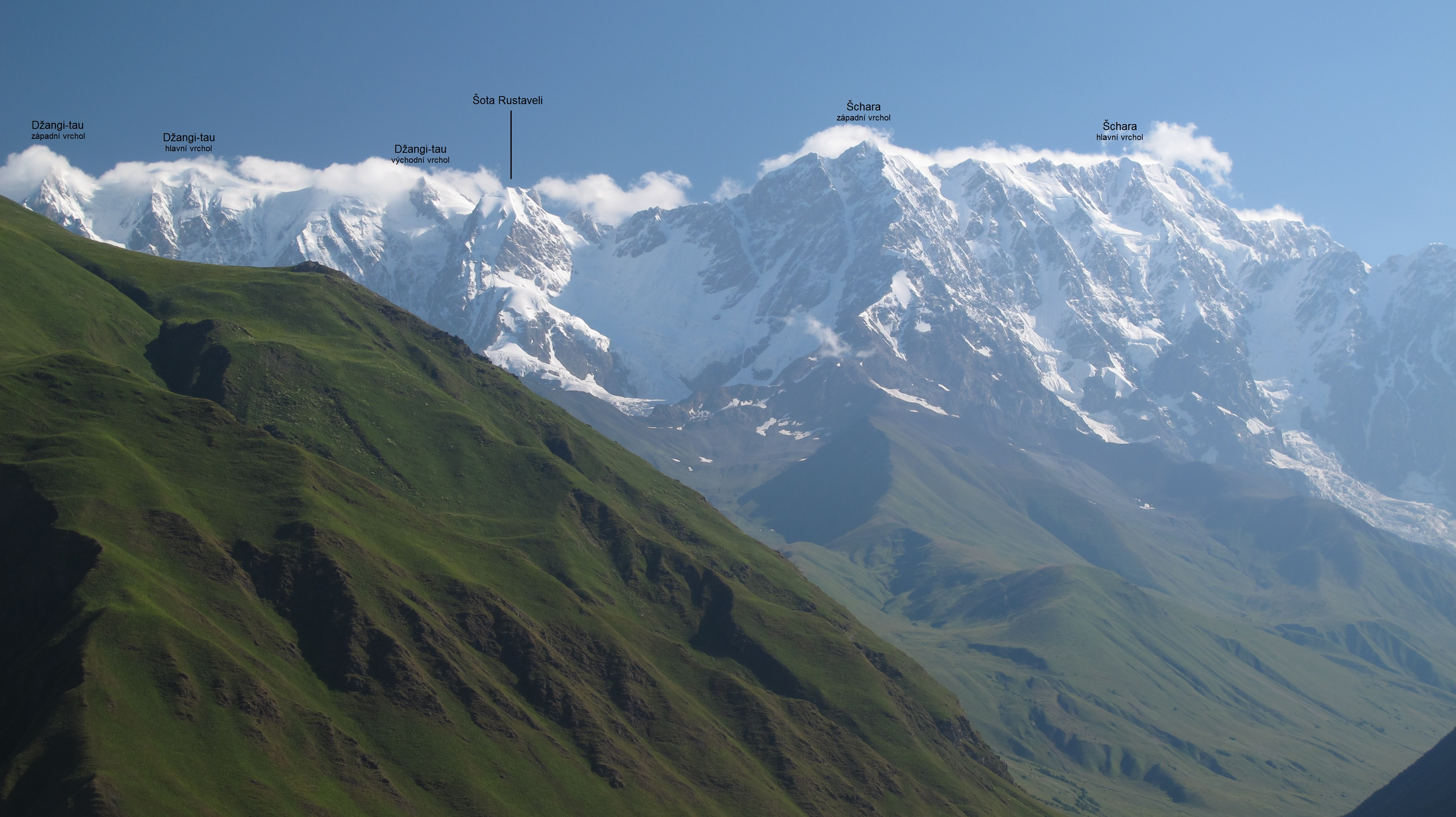 Peak Shkhara as viewed from south side. Names from Naumov, A.F. (1985) Gory Svanetii (Mountains of Svanetina), in czech transcription.